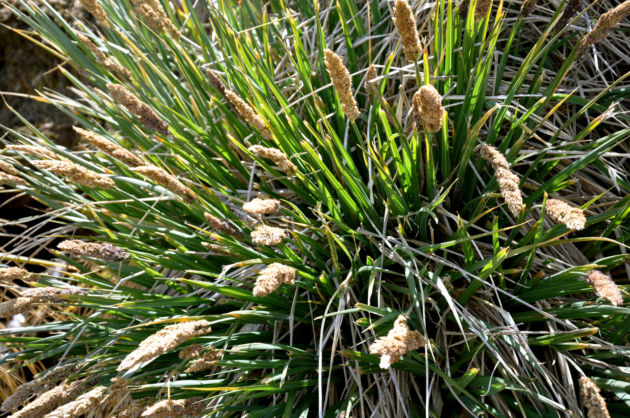 Tussac Grass or tussock (Poa flabellata) - South Georgia